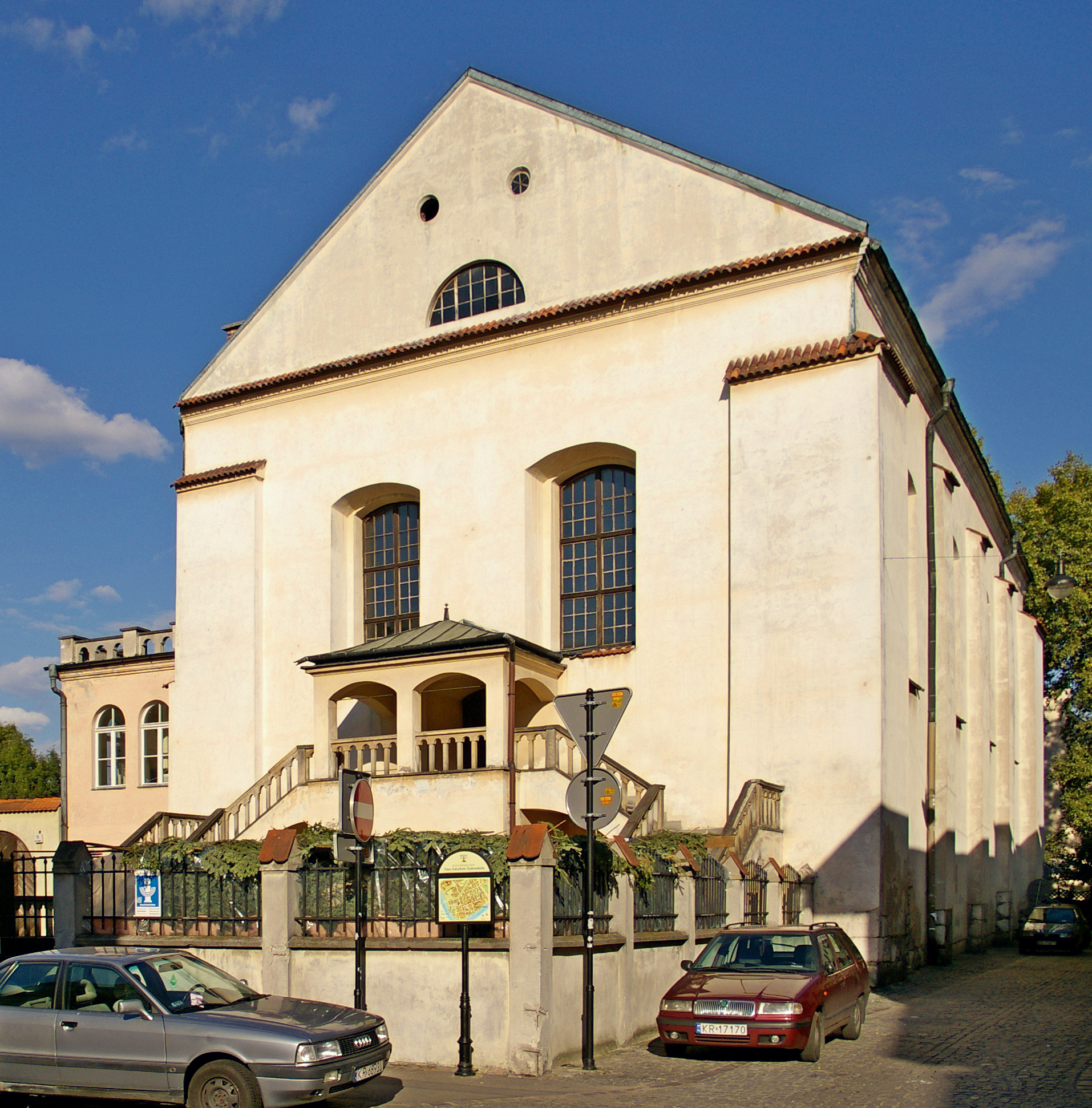 Izaak Synagugue in Krakow